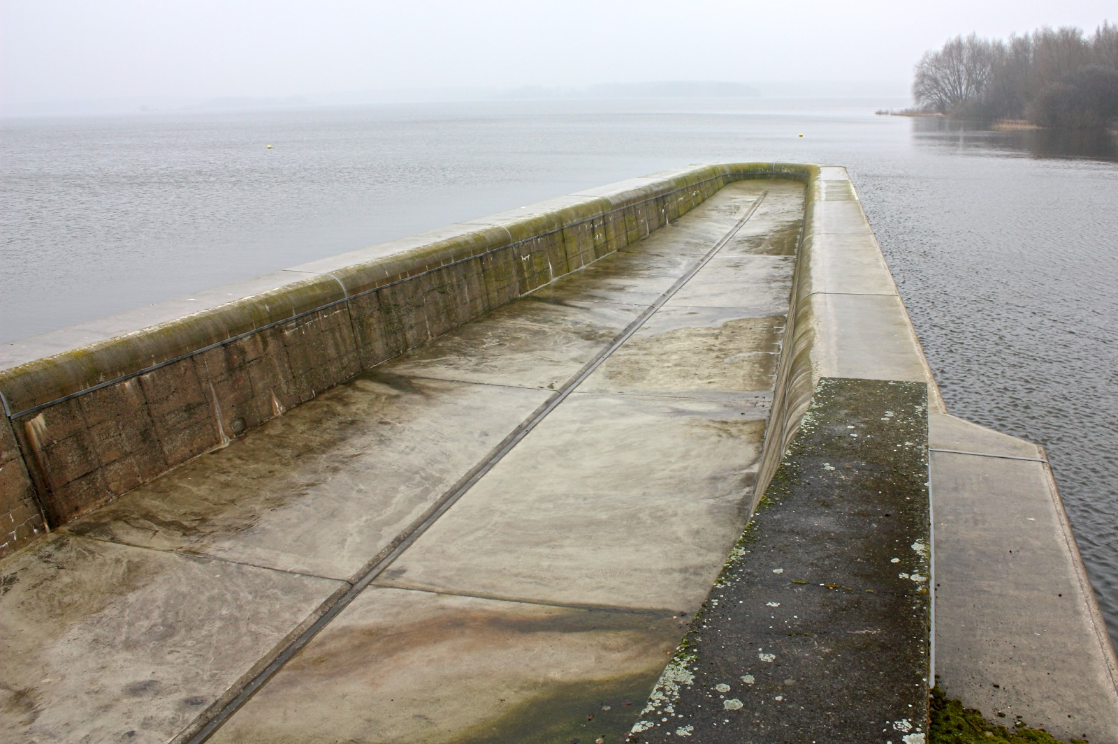 Part of the dam in Quitzdorf am See in the district Görlitz, east Saxony, Germany.